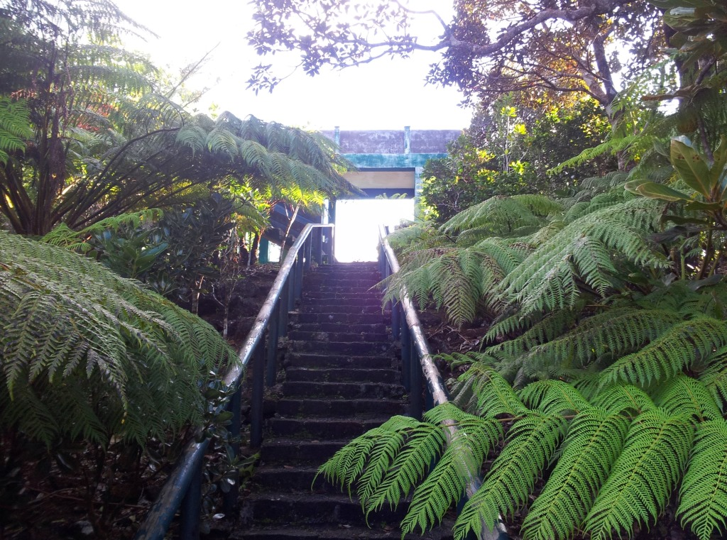 MonVert Nature Walk - Steps up to Lookout Tower